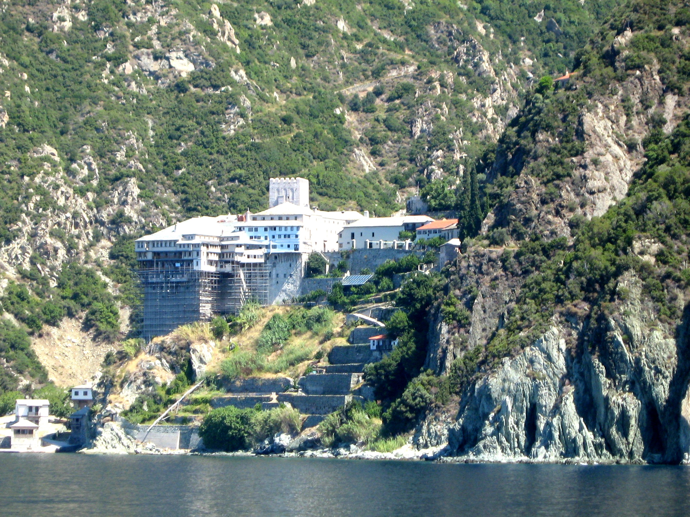 Mount Athos, Agiou Dionysiou monastery